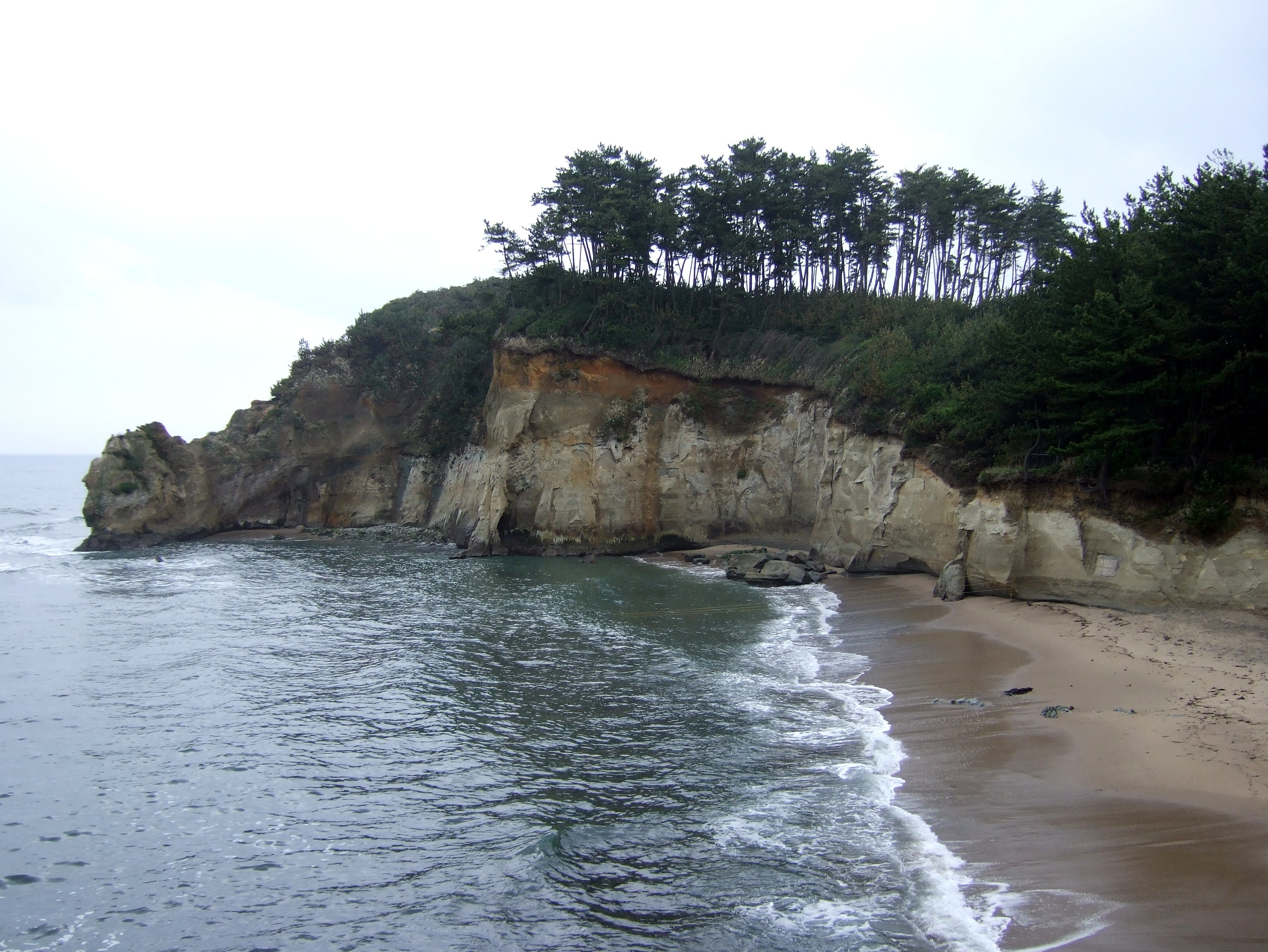 鵜の岬の一景。 A scene of cape named "cape of cormorant", Ibaraki pref Japan.